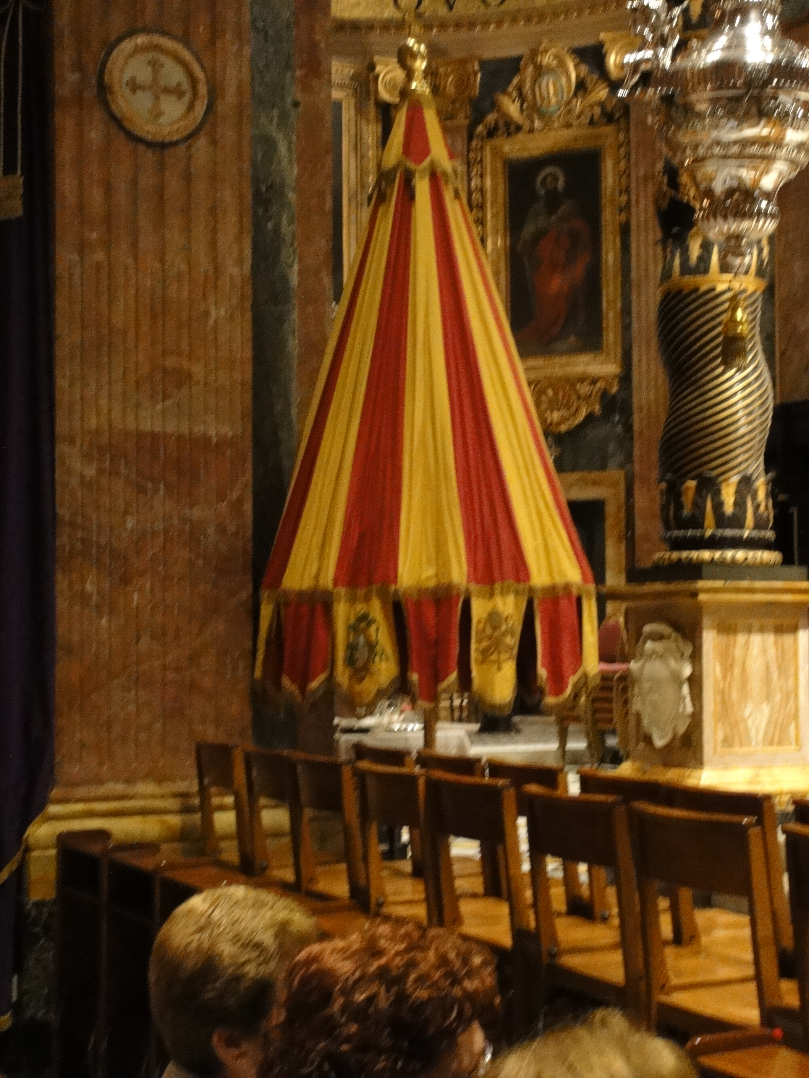 The Basilica Umbrella of St George's church in Gozo.